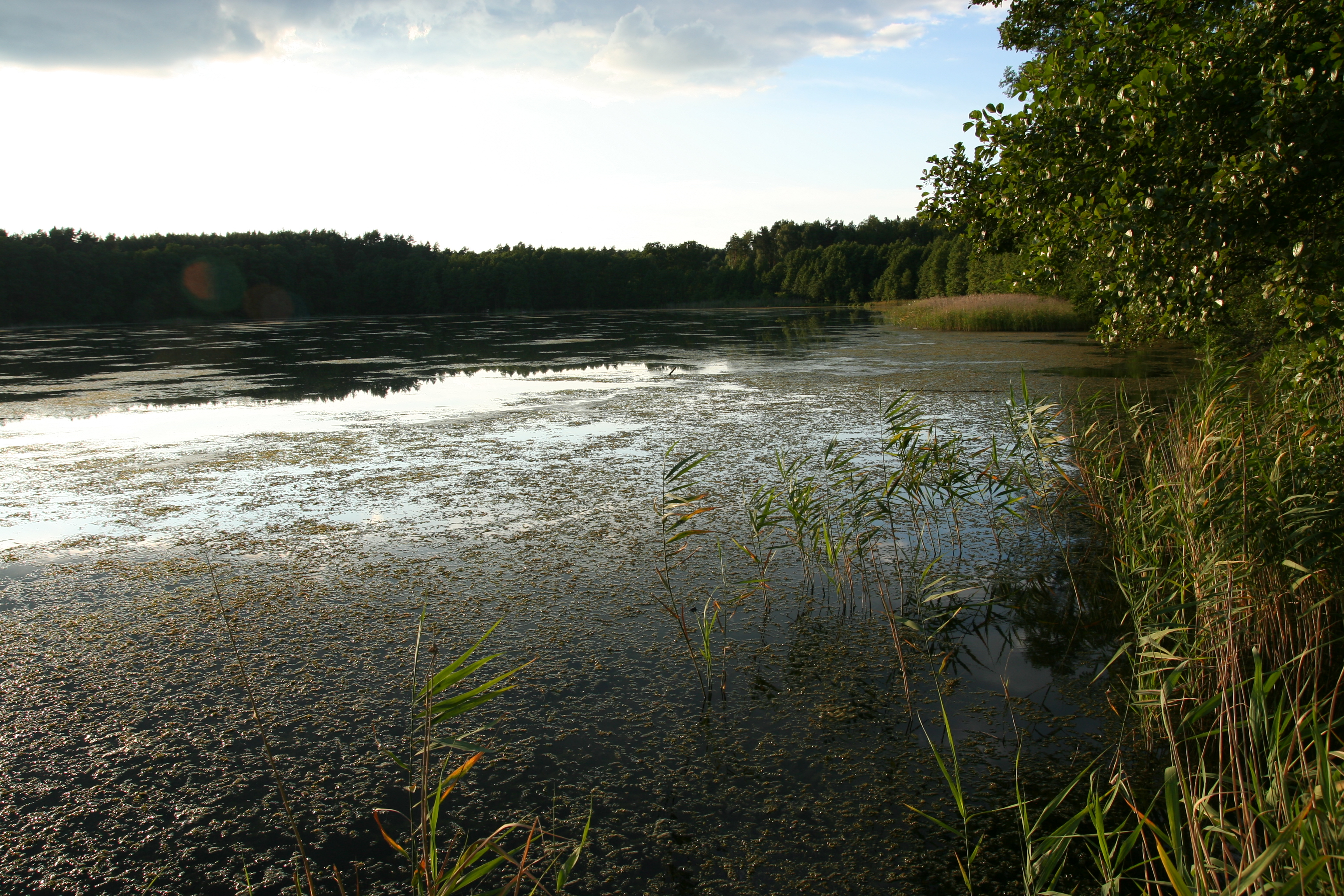 Wielka Szczekowa lake near Międzychód